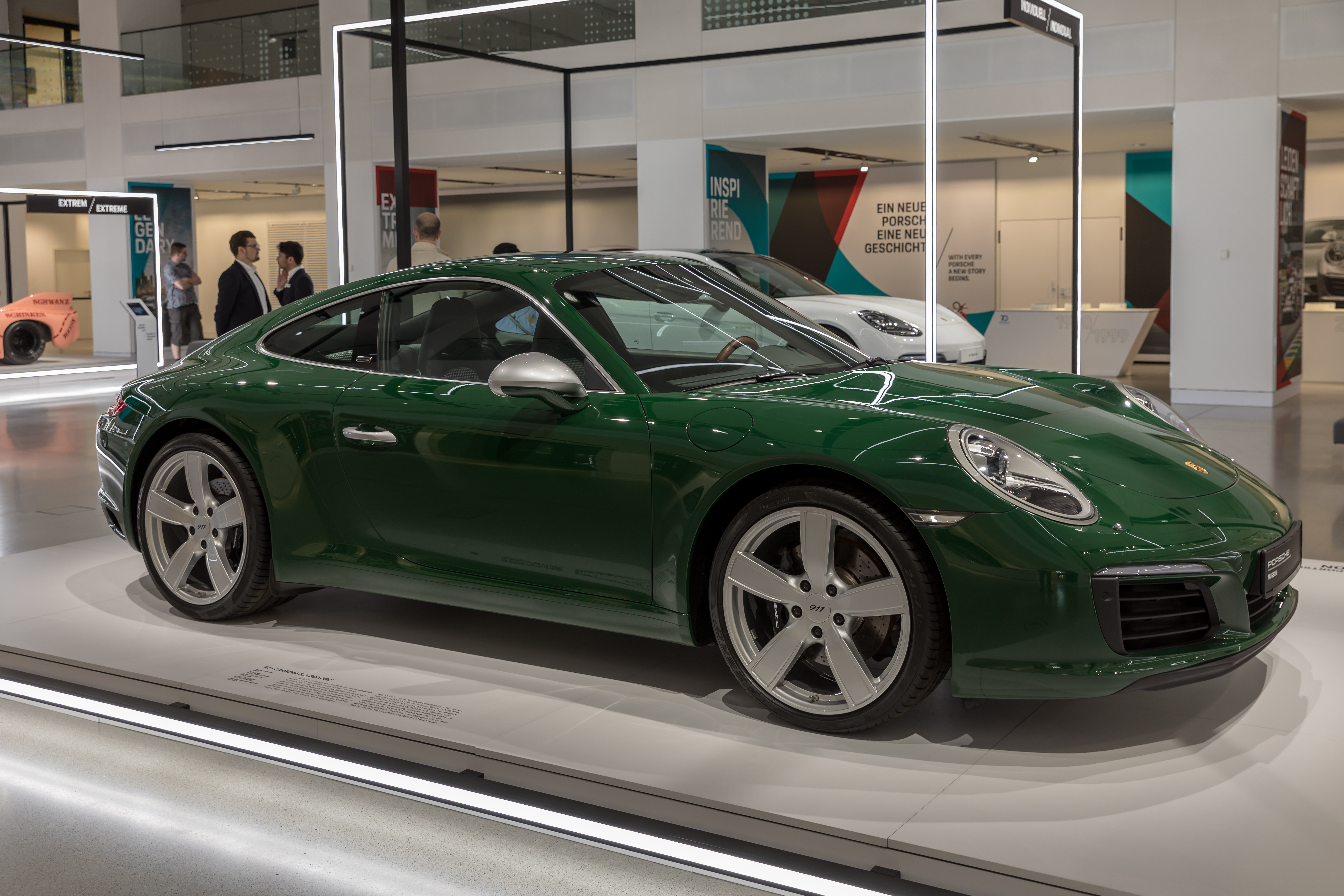 70 Years Porsche, DRIVE. Volkswagen Group Forum